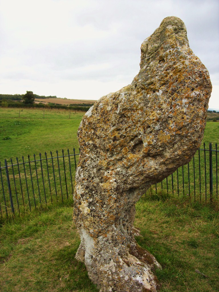 The King Stone, Long Compton, Warwickshire, near the Rollright Stones in Oxfordshire